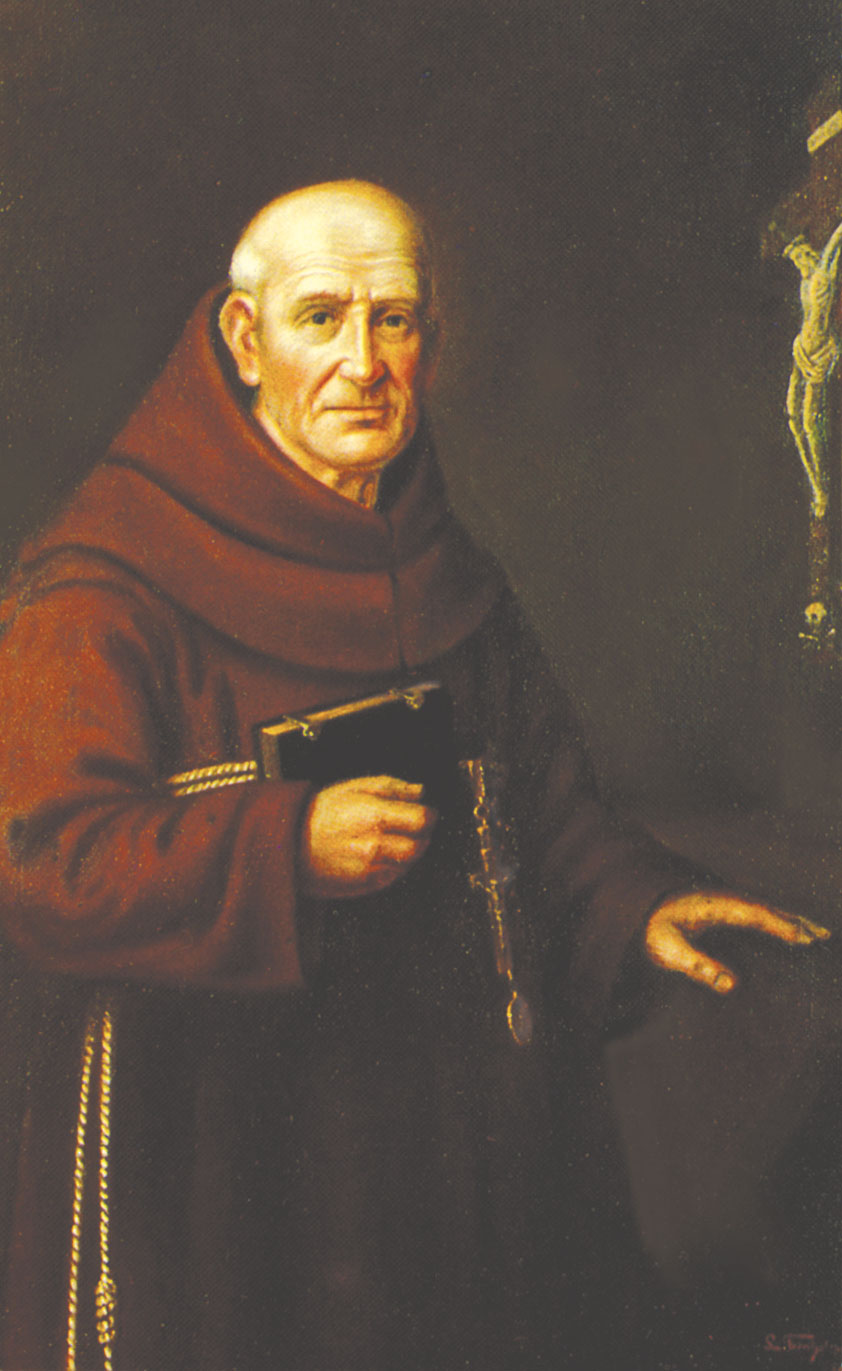 A portrait of Johann Christoph Bernsmeyer